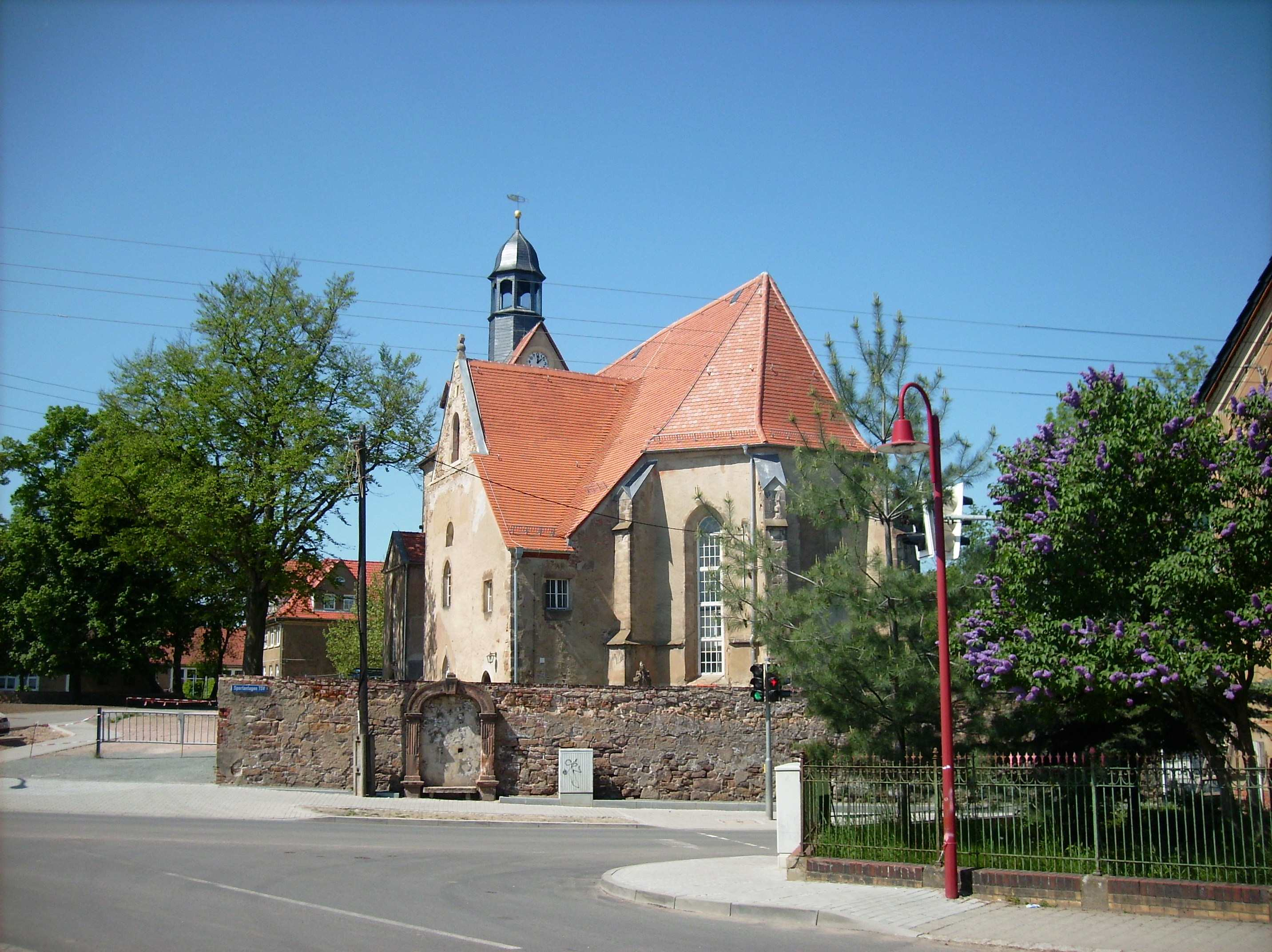 Late Gothic church of Windischleuba (district of Altenburger Land, Thuringia)